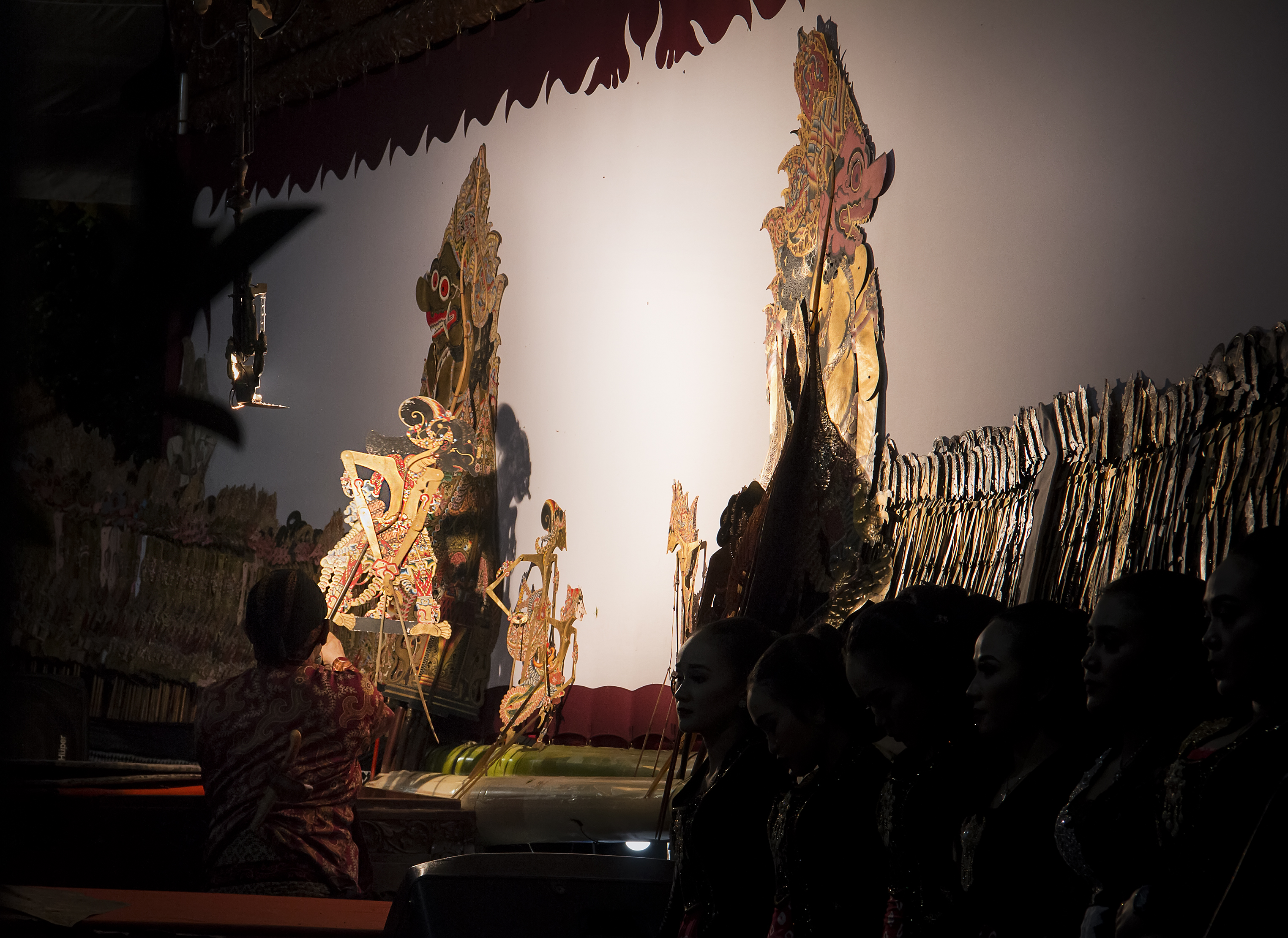 Wayang (puppet) is one of Javanese culture.